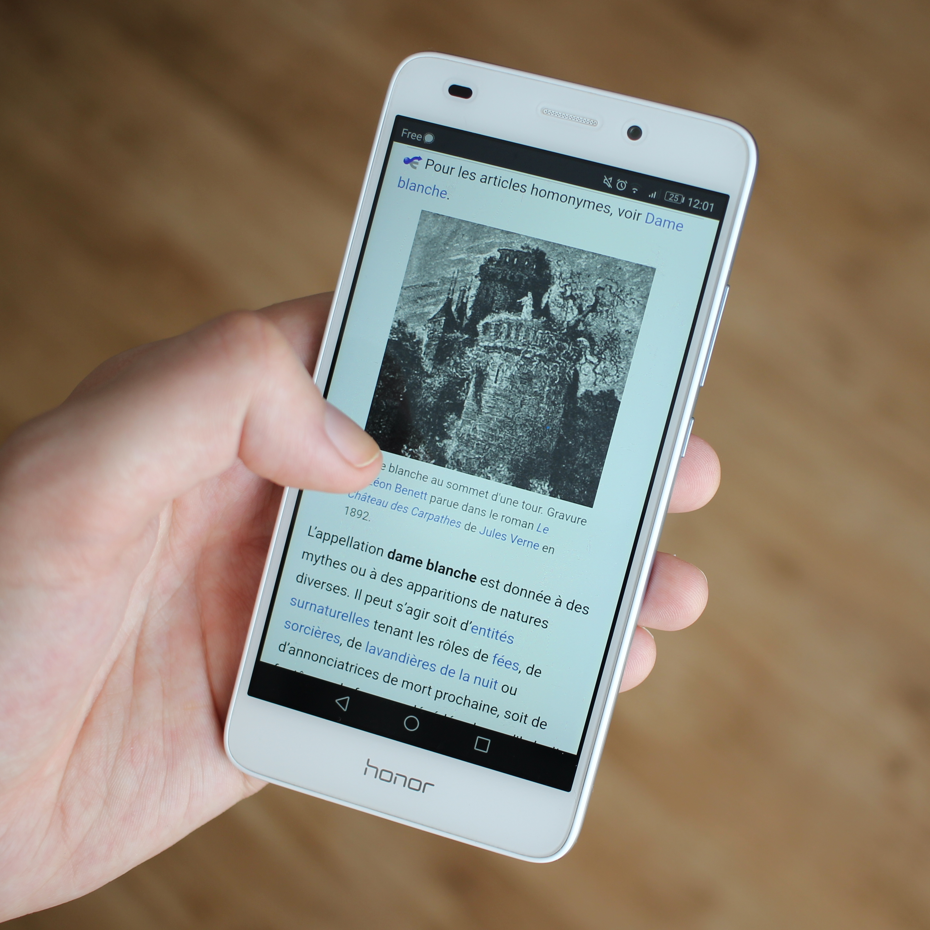 A french article of Wikipédia (dame blanche) on a Honor phone